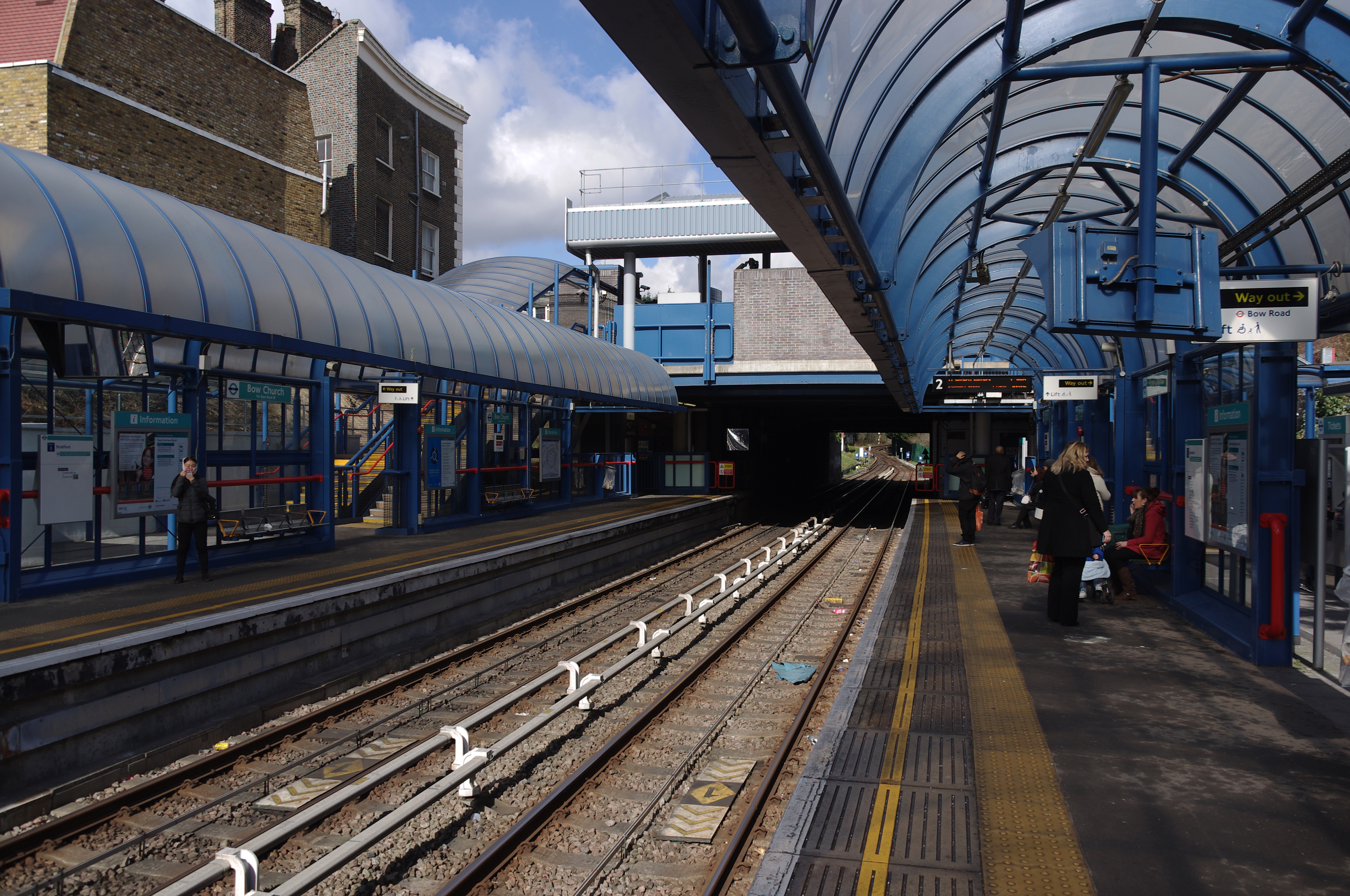 Looking north from Bow Church DLR station.